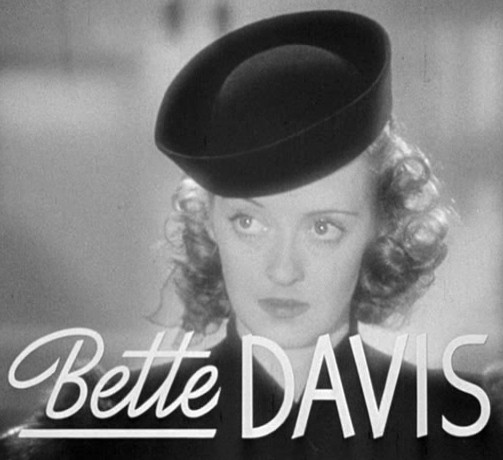 Cropped screenshot of Bette Davis from the trailer for the film Dark Victory.